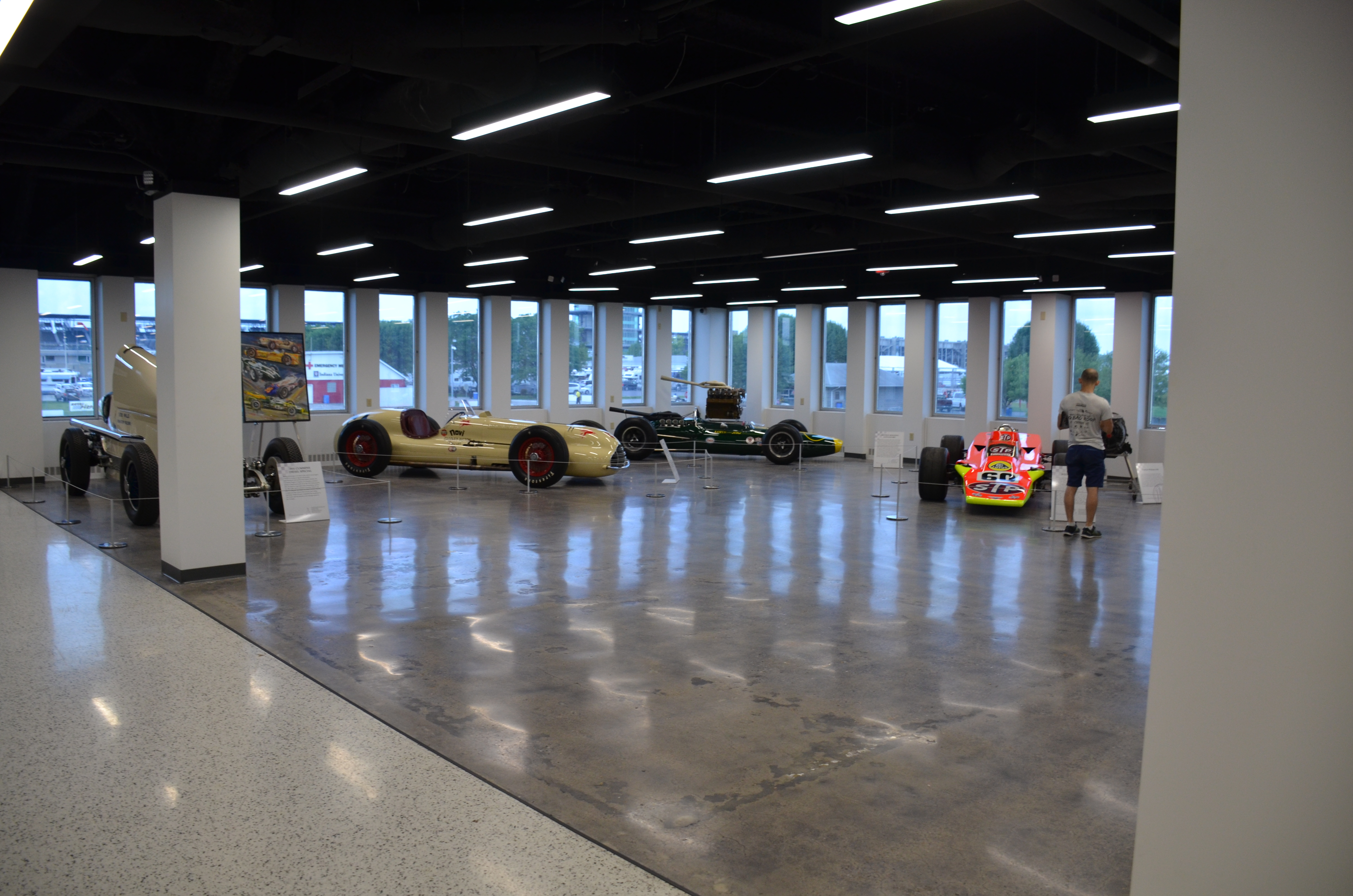 Indianapolis Motor Speedway Museum